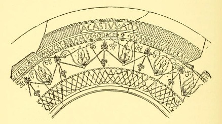 Gallo-roman fragment of flask in yellowish clay, found in Klagenfurt. Signed ACASTVS-ACO, a potter who worked in the area of Savoy or Piemont during the Augustean périod (turn of the first millenium) and who was inspired by the aretine sigillata technique and style of signature. He himself inspired his type of decorations to the fabric of Saint-Rémy-en-Rollat (in centre Gaul): a kind of arcading with floriated points. The inscription on this shard says: "Life is short, hope is frail. Come, [the ligths] are kindled; let us drink, comrades, while it is light. Drawing by H.B. Walters, History of ancient pottery...', p. 518, fig. 225.